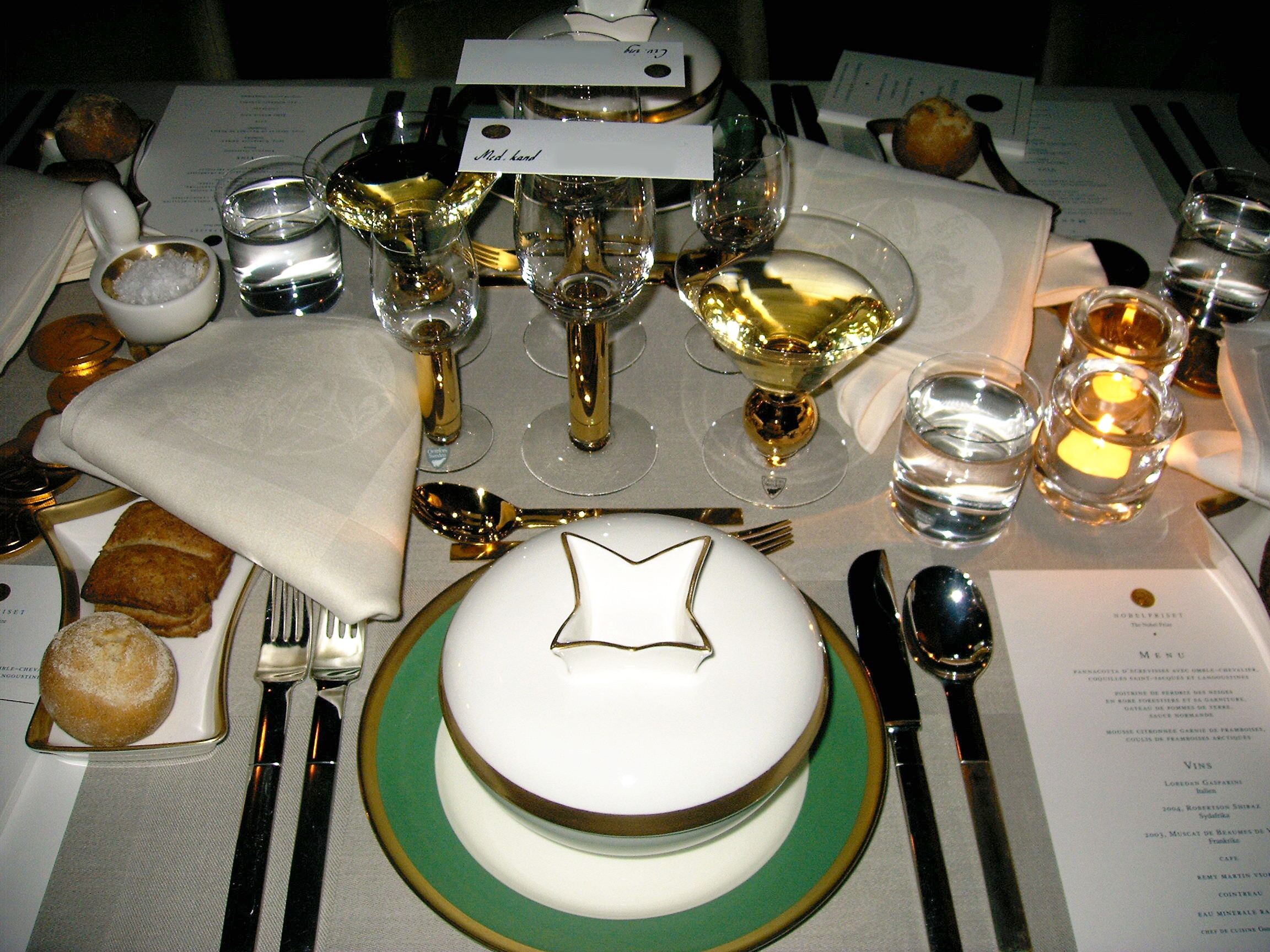 Student table at the Nobel Prize Banquet 2005 with menu and the special Nobel service; name tags are anonymized.